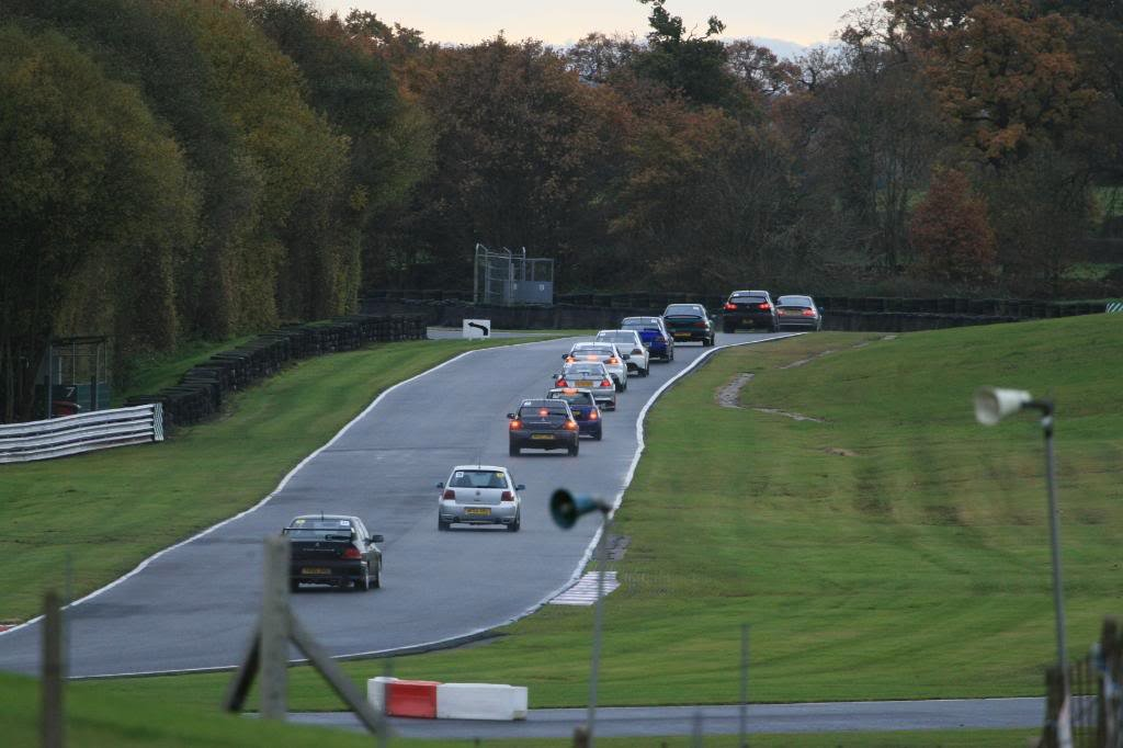 Trackday MLR